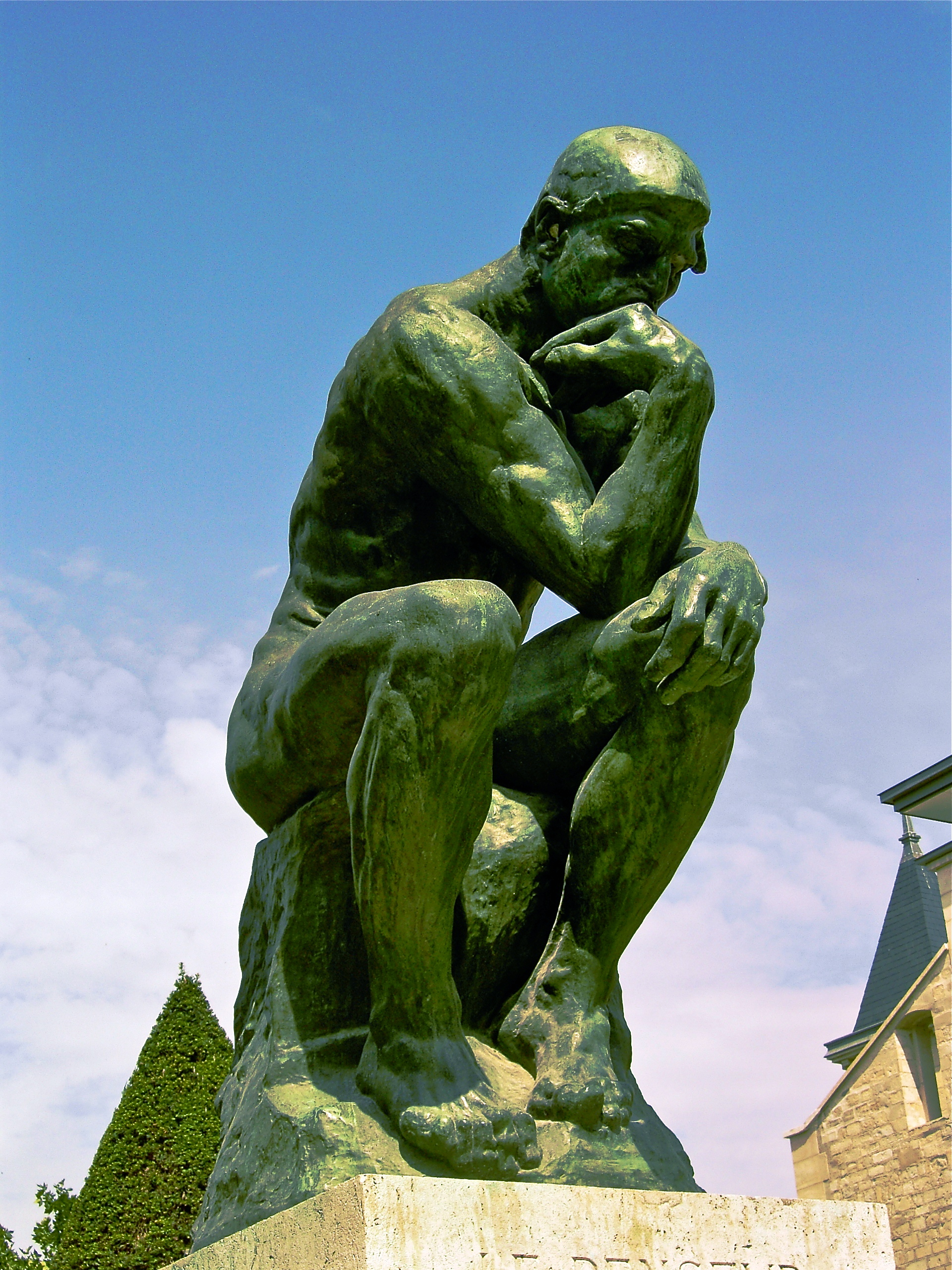 A photo of The Thinker by Rodin located at the Musée Rodin in Paris